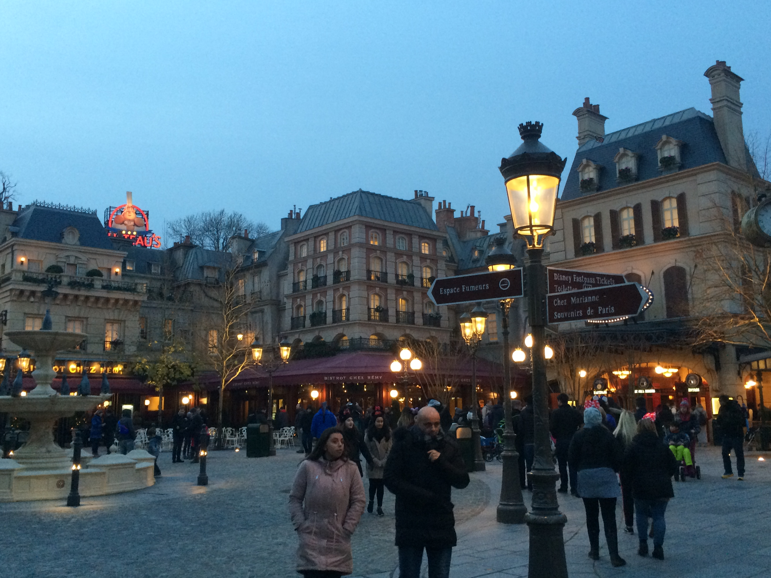 Facade of Ratatouille attraction in Toon Studio lot, Walt Disney Studios park at Disneyland Paris.